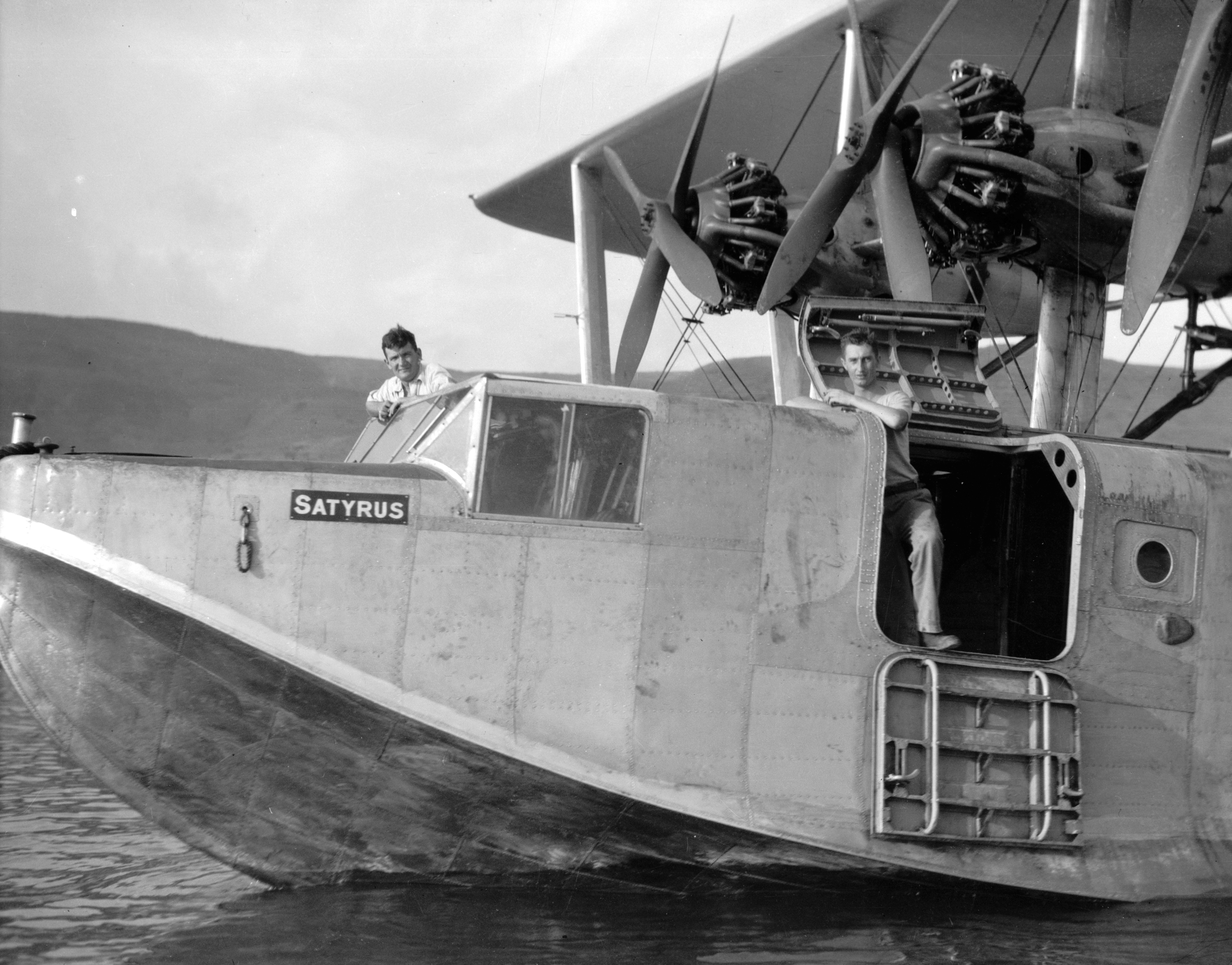 Air views of Palestine. Aircrafts etc. of the Imperial Airways Ltd., on the Sea of Galilee and at Semakh. Flying boat "Satyrus" on Sea of Galilee showing a close-up.